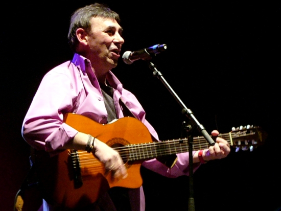 Aragonese singer-songwriter Joaquín Carbonell performing live in Uesca